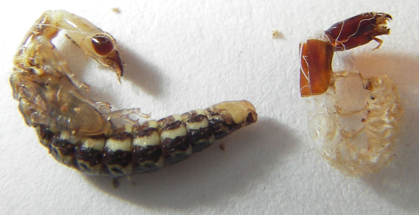 Pupa of snakefly, Raphidia sp. and its larval exuviae